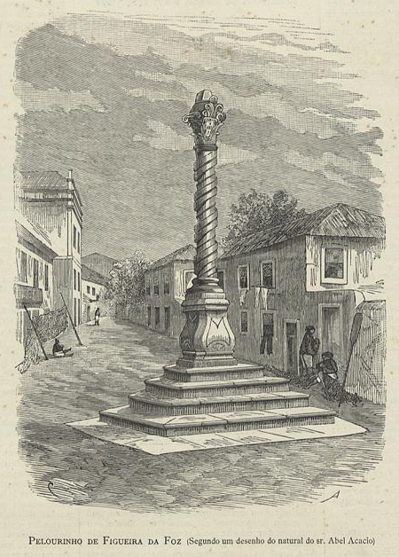 Pillory of Figueira da Foz, in an 1885 engraving